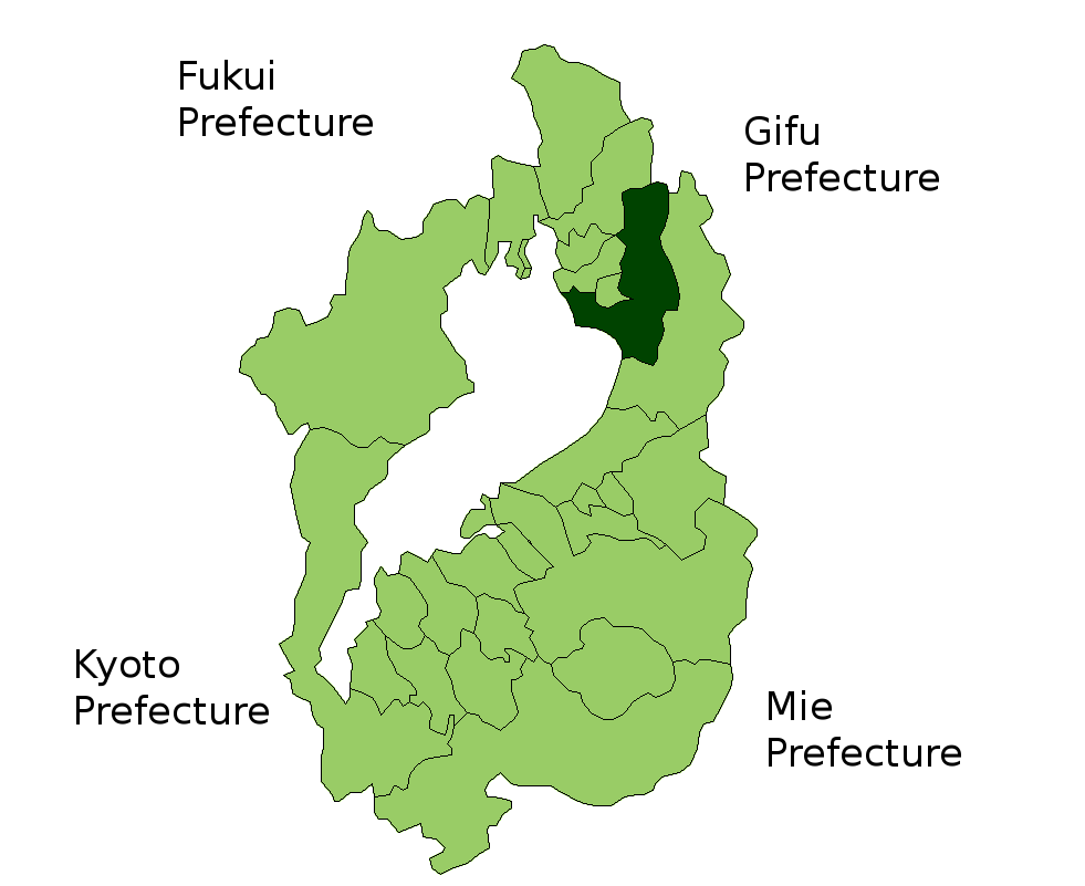 Location Map of Nagahama in Shiga Prefecture, Japan